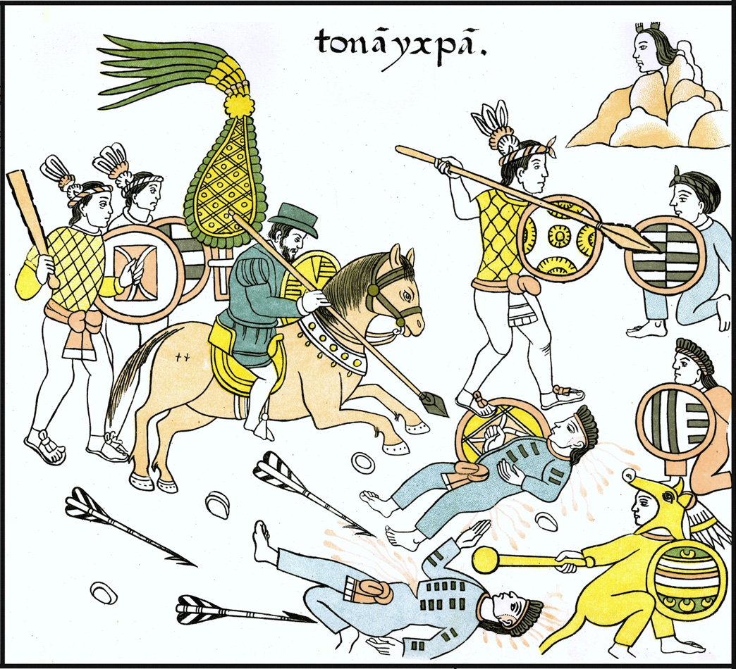 Tlaxcalan warriors together with their spaniard allies. Lienzo de Tlaxcala. XVI Century